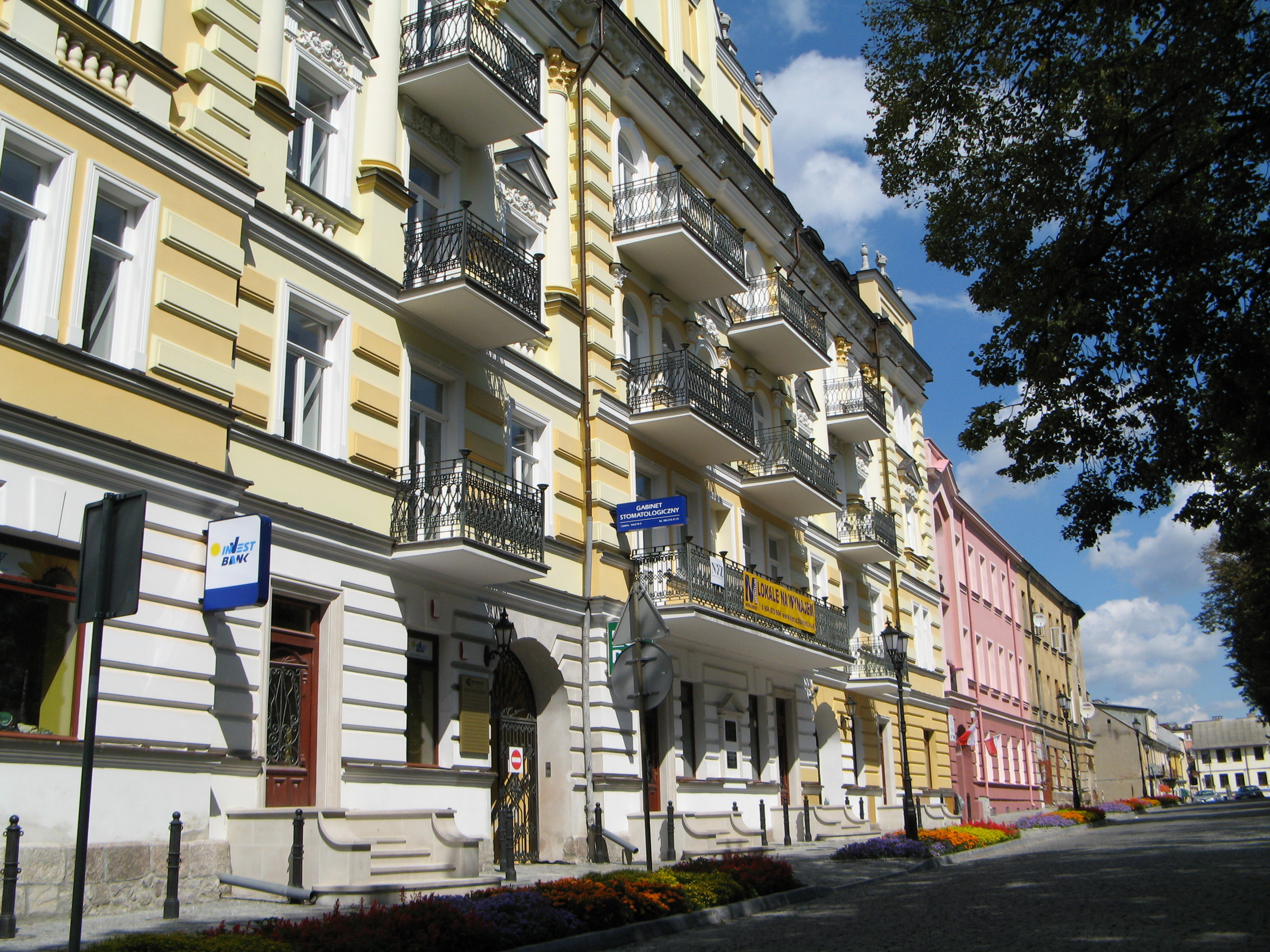 Sienkiewicza Street in Łomża (left side: Śledziewski Family tenement house)